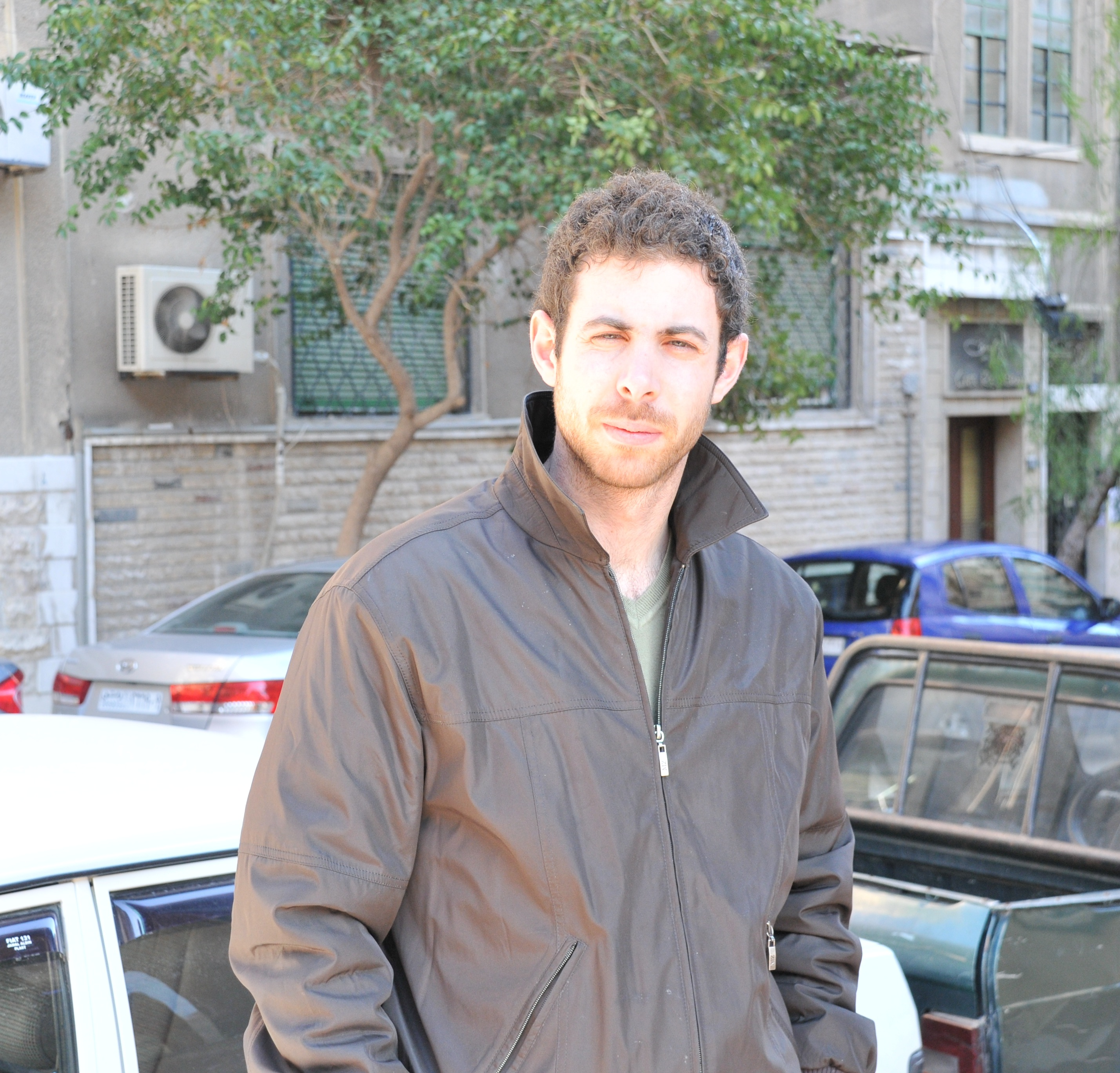 Photo of Rami Jarrah taken february 2011 (Damascus, Syria)